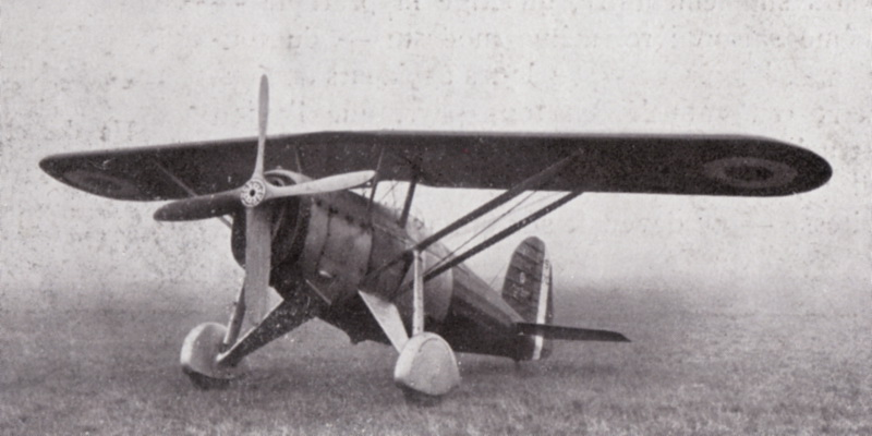 Aircraft Morane-Saulnier M.S. 227 with engine Hispano-Suiza 12Xcrs 680 HP